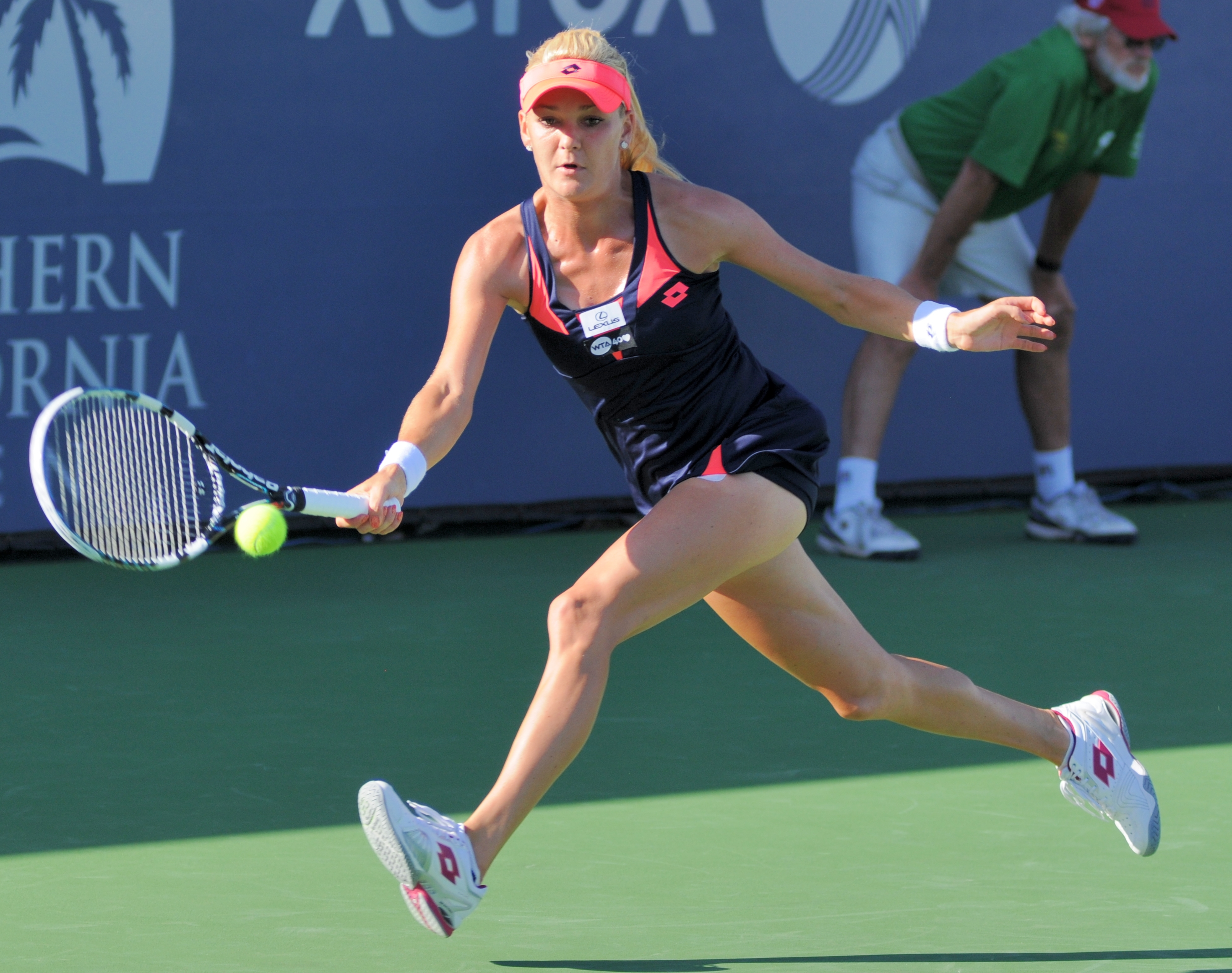 2013 Southern California Open - Quarterfinals